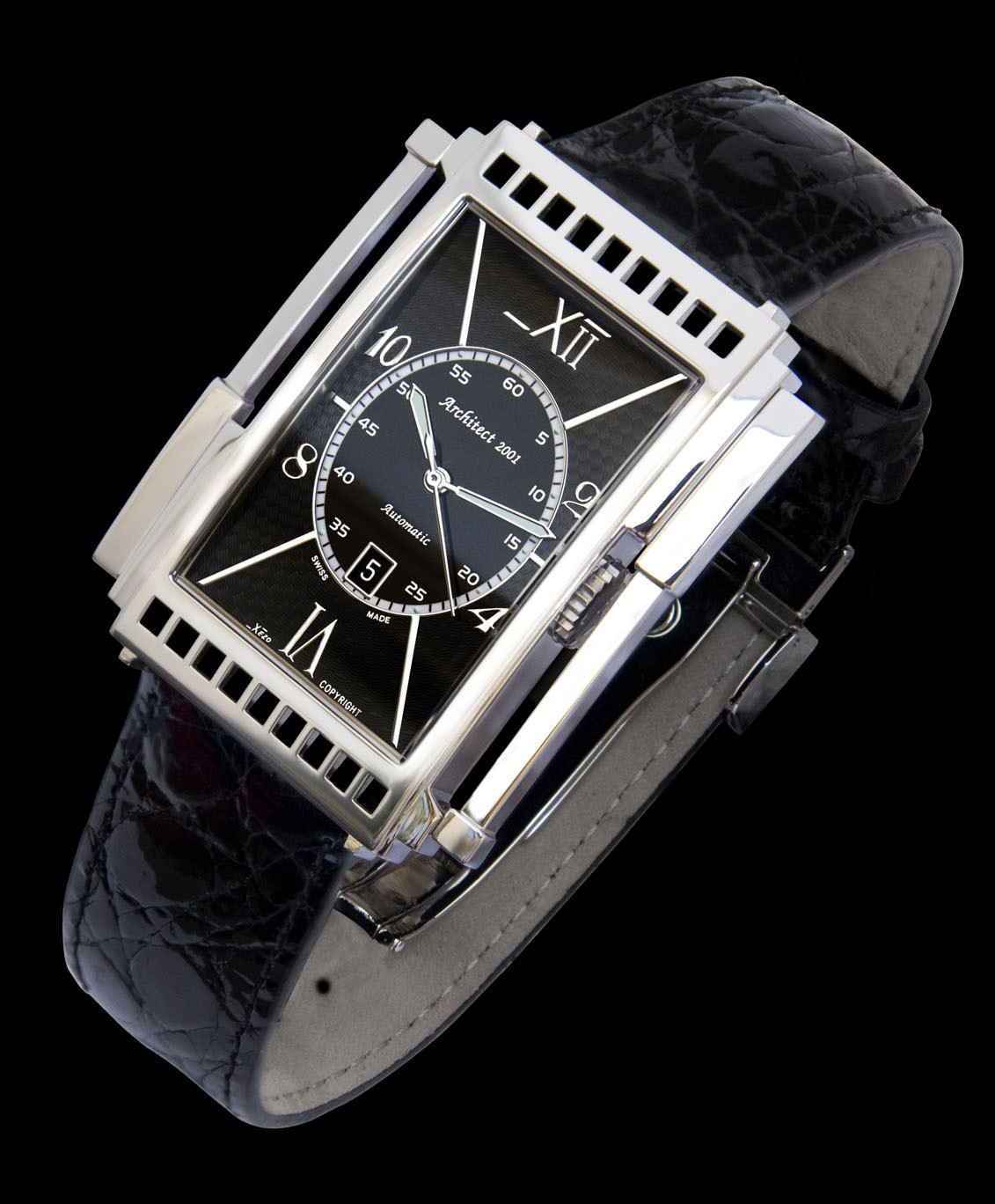 Xezo Men's Architect Automatic Watch